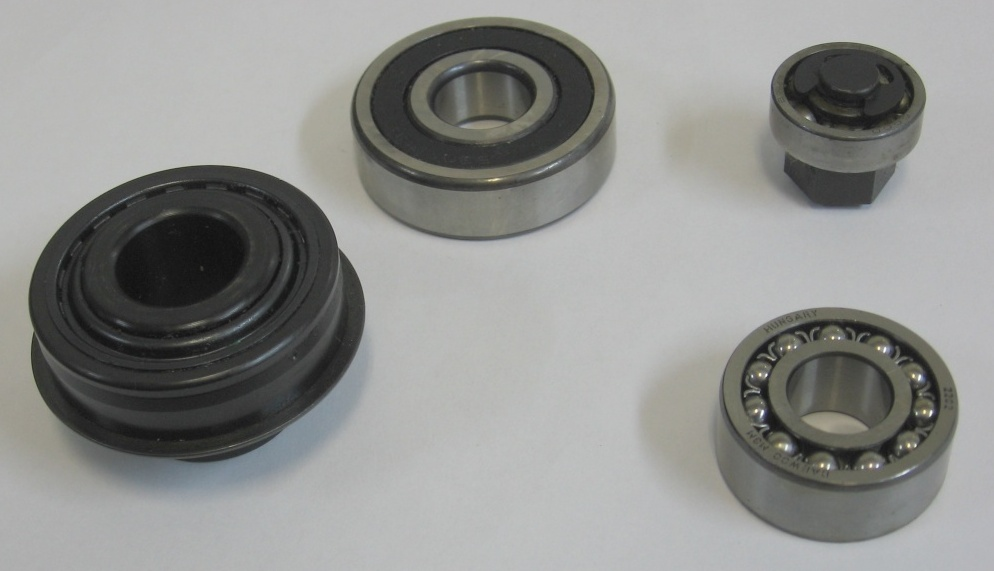 Various ball bearings